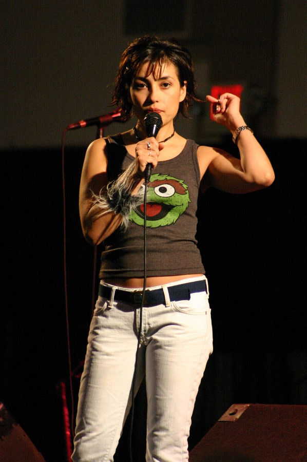 Mexican actress Iyari Limon at the 2004 Moonlight Rising convention.